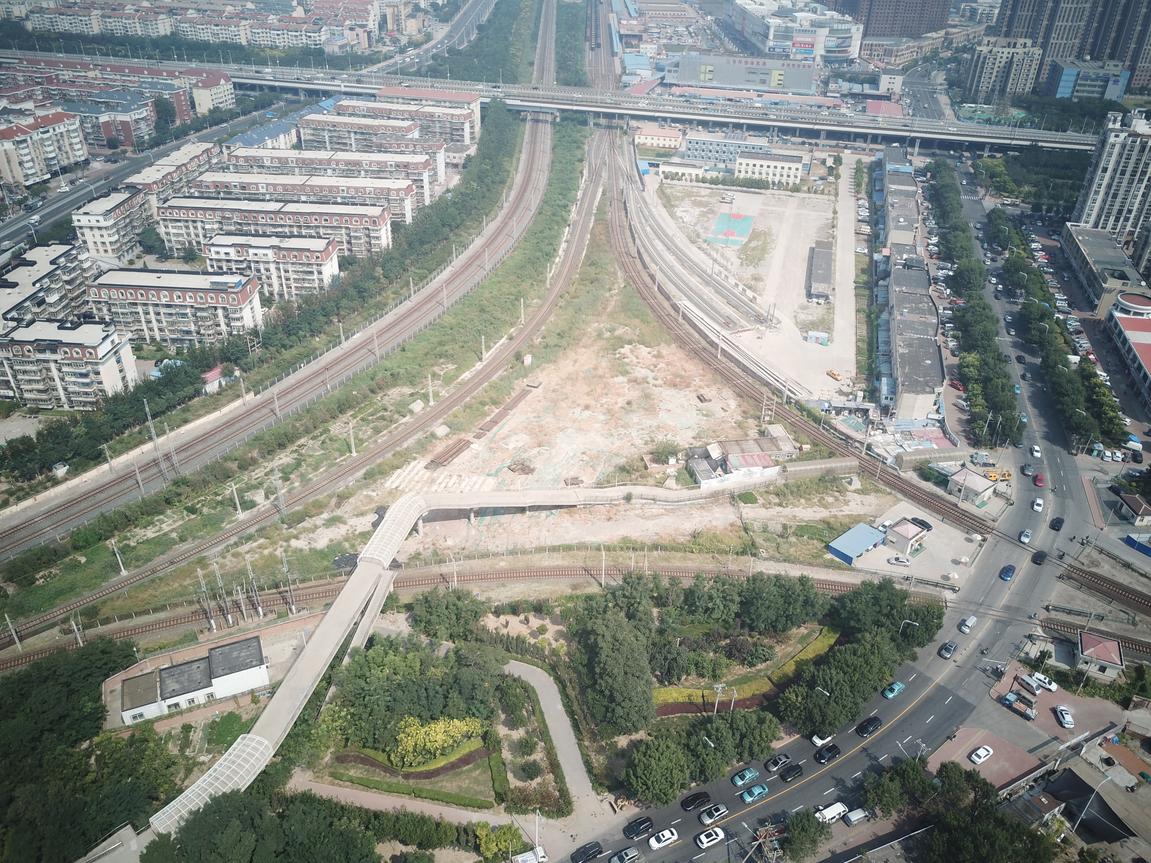 天津建筑物航拍